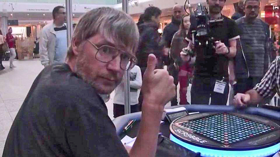 Nigel Richards, shortly before clinching the world champion title for the fourth time.